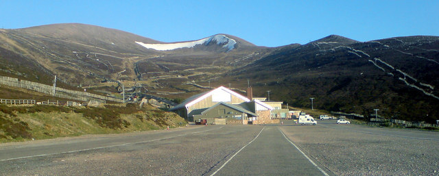 Cairngorm Funicular Station Taken from an almost empty car park at 20.15 BST in an April evening. Cairngorm rises to the left with the snow holding Fiacaill a'Choire Chais in the centre.